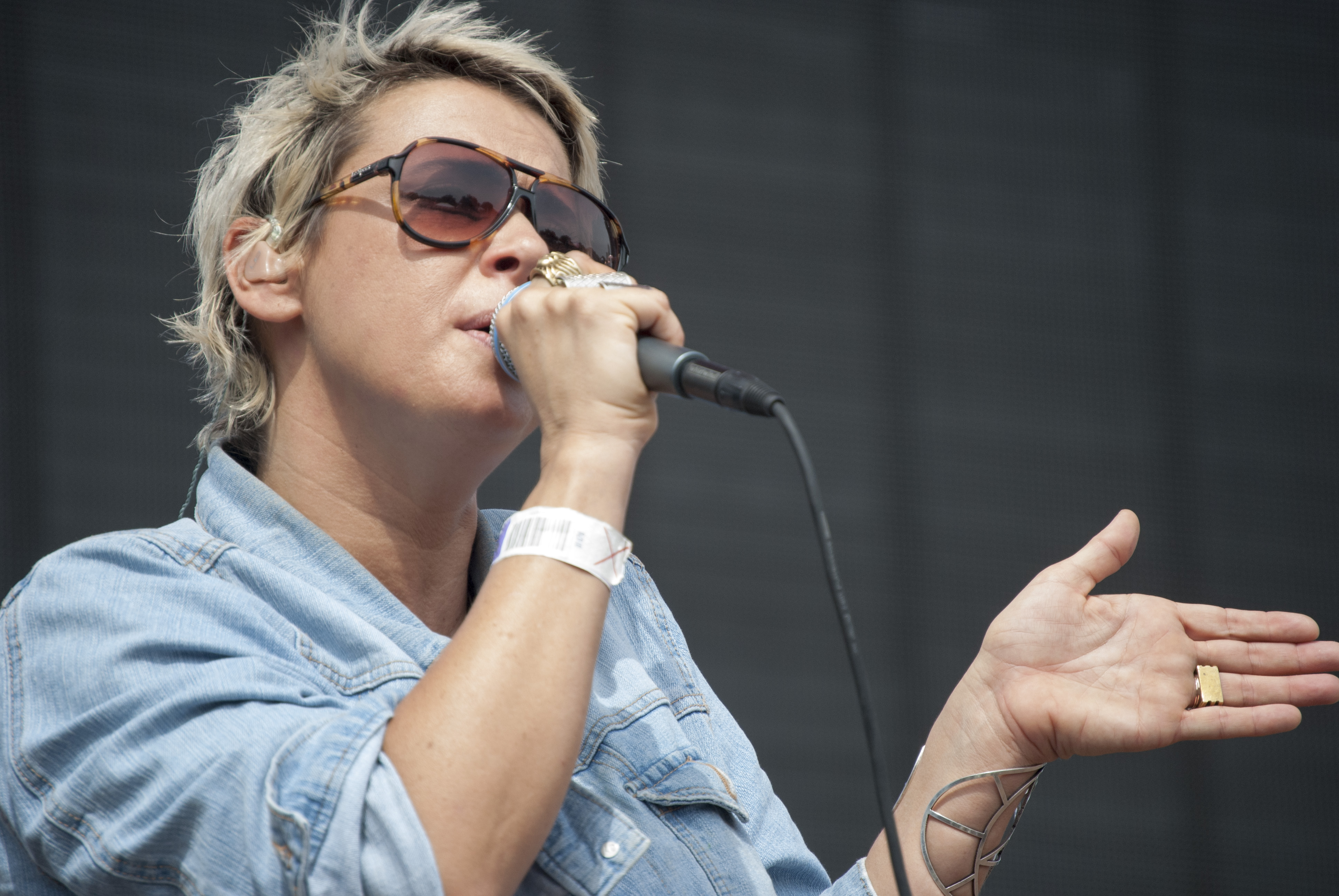 Cat Power at Freepress Summer Fest, 2013